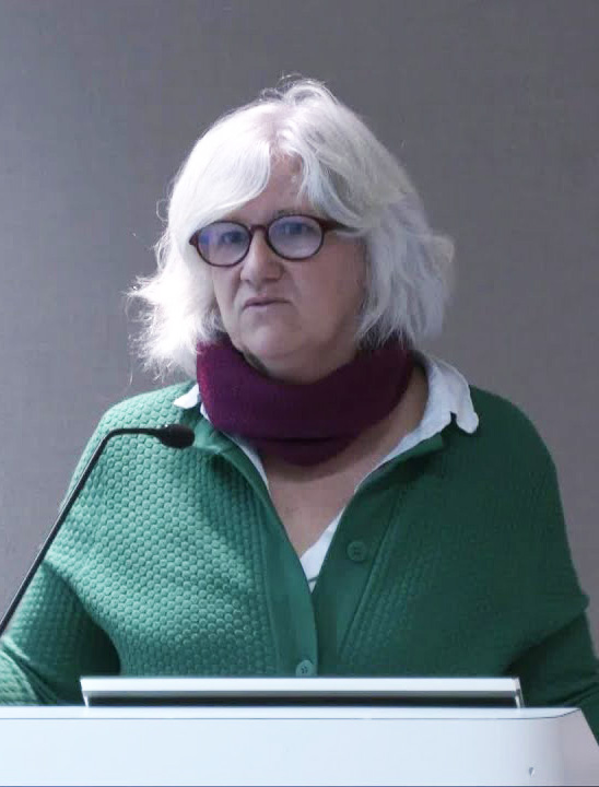 photo of teresa gali-izard